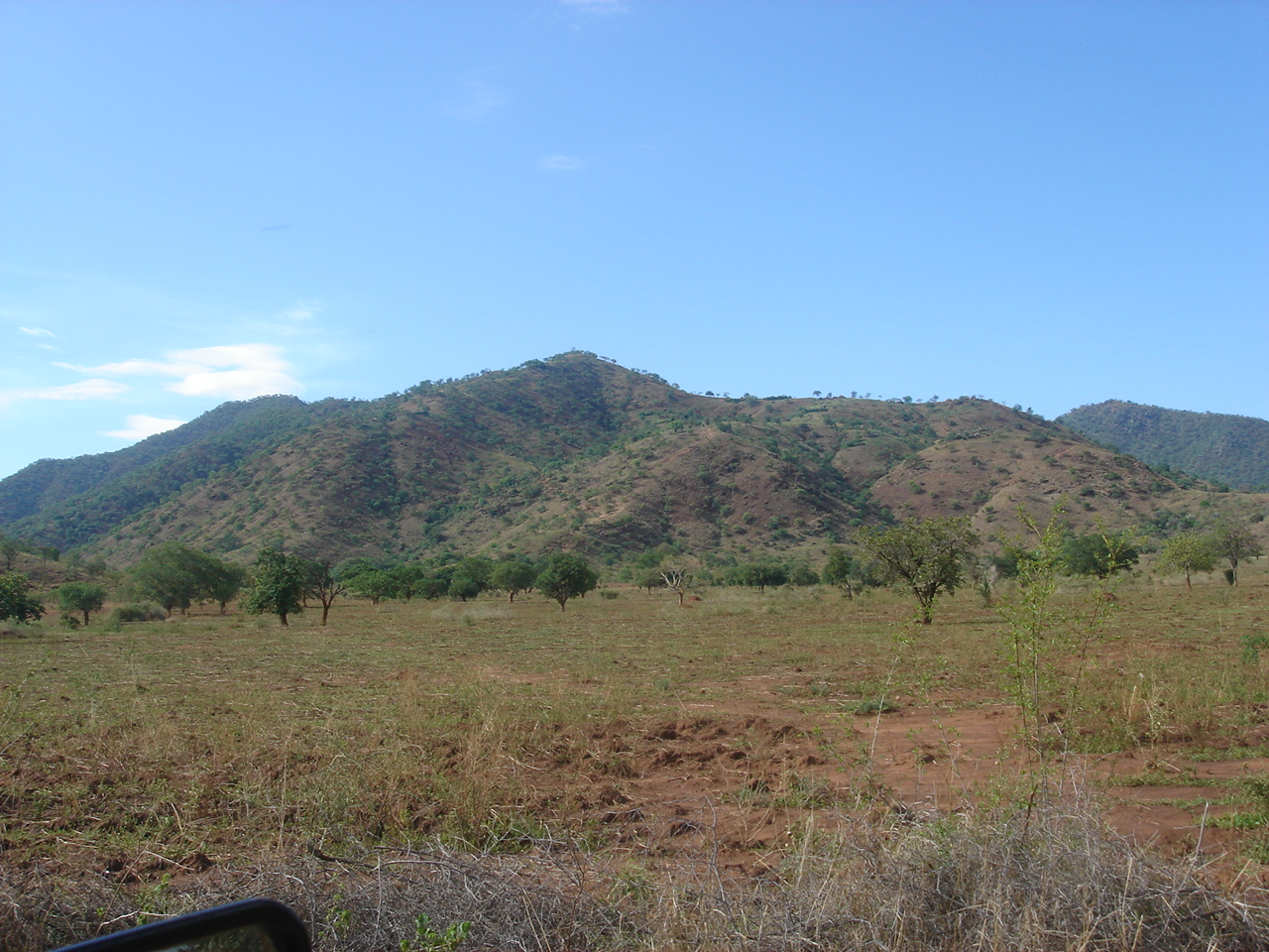 The picture shows the a region known to the Didinga people as Lotiathe.